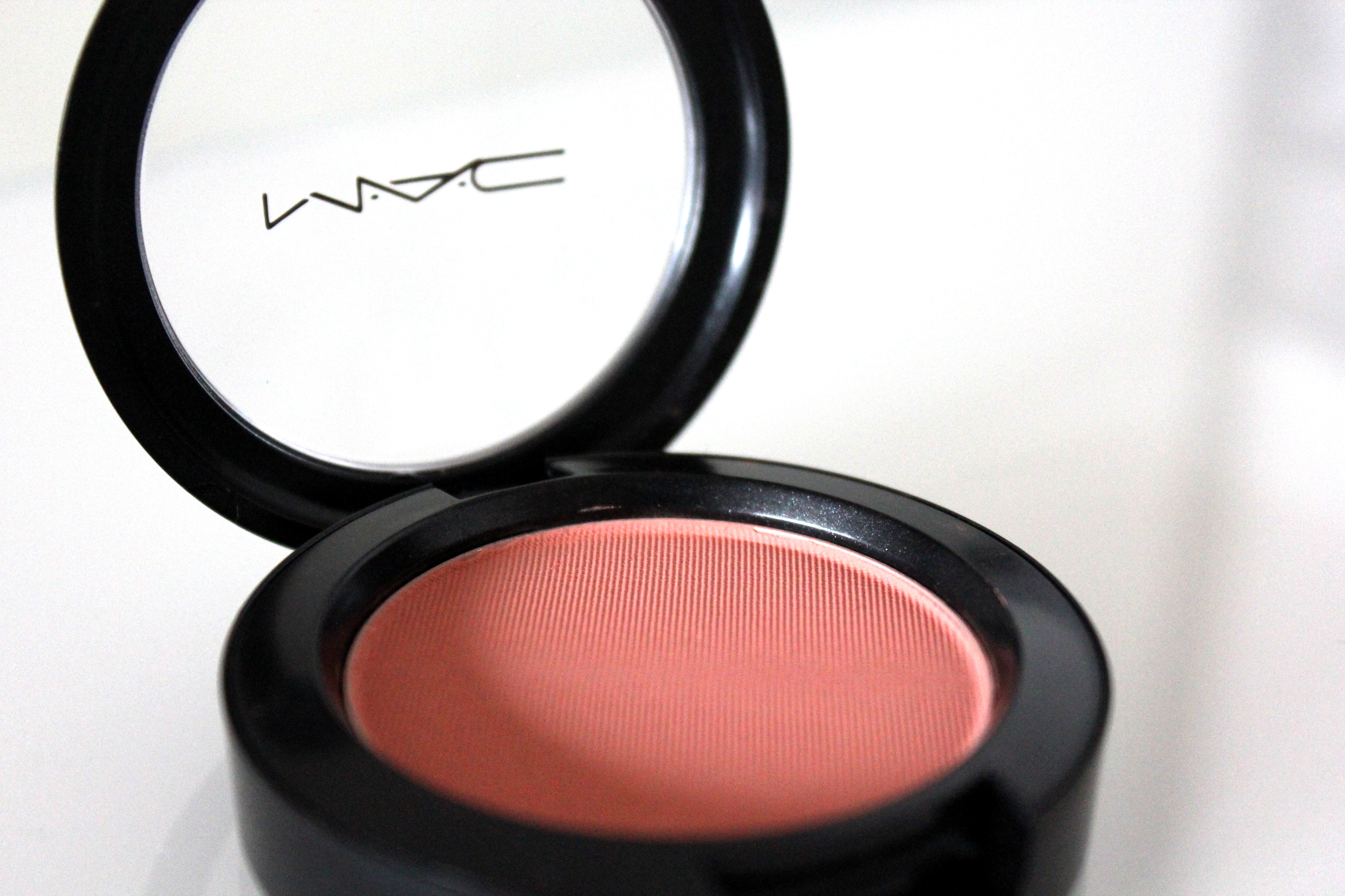 Rouge Melba MAC Cosmetics